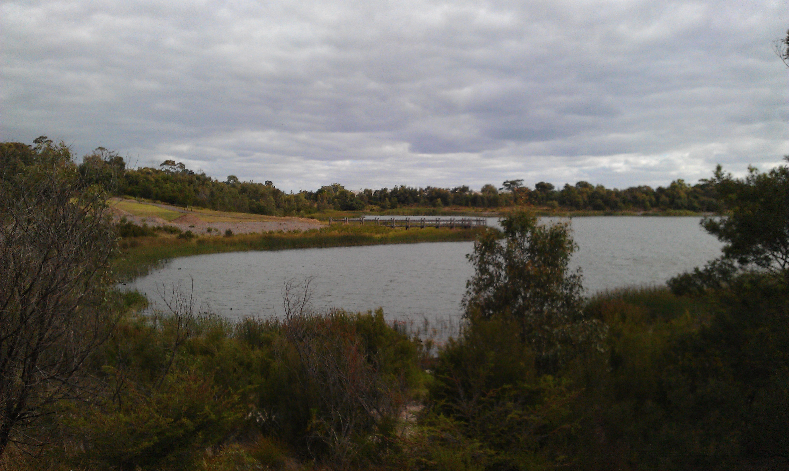 Artificial lake at Karkarook Park in Moorabbin, Melbourne, Australia.